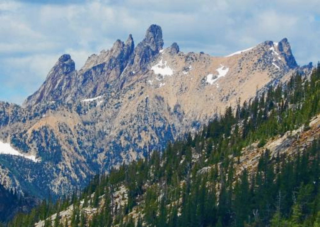 The Needles 8170' seen from the south ridge of Wallaby Peak